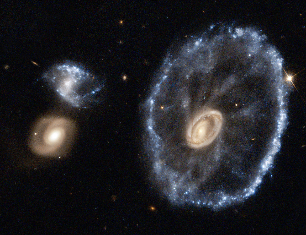 An image of the Cartwheel Galaxy taken with the NASA/ESA Hubble Space Telescope has been reprocessed using the latest techniques to mark the closure of the Space Telescope European Coordination Facility (ST-ECF), based near Munich in Germany, and to celebrate its achievements in supporting Hubble science in Europe over the past 26 years. Astronomer Bob Fosbury, who is stepping down as Head of the ST-ECF, was responsible for much of the early research into the Cartwheel Galaxy along with the late Tim Hawarden — including giving the object its very apposite name — and so this image was selected as a fitting tribute. The object was first spotted on wide-field images from the UK Schmidt telescope and then studied in detail using the Anglo-Australian Telescope. Lying about 500 million light-years away in the constellation of Sculptor, the cartwheel shape of this galaxy is the result of a violent galactic collision. A smaller galaxy has passed right through a large disc galaxy and produced shock waves that swept up gas and dust — much like the ripples produced when a stone is dropped into a lake — and sparked regions of intense star formation (appearing blue). The outermost ring of the galaxy, which is 1.5 times the size of our Milky Way, marks the shock wave’s leading edge. This object is one of the most dramatic examples of the small class of ring galaxies. This image was produced after Hubble data was reprocessed using the free open source software FITS Liberator 3, which was developed at the ST-ECF. Careful use of this widely used state-of-the-art tool on the original Hubble observations of the Cartwheel Galaxy has brought out more detail in the image than ever before. Although the ST-ECF is closing, ESA’s mission to bring amazing Hubble discoveries to the public will be unaffected, with Hubblecasts, press and photo releases, and Hubble Pictures of the Week continuing to be regularly posted on